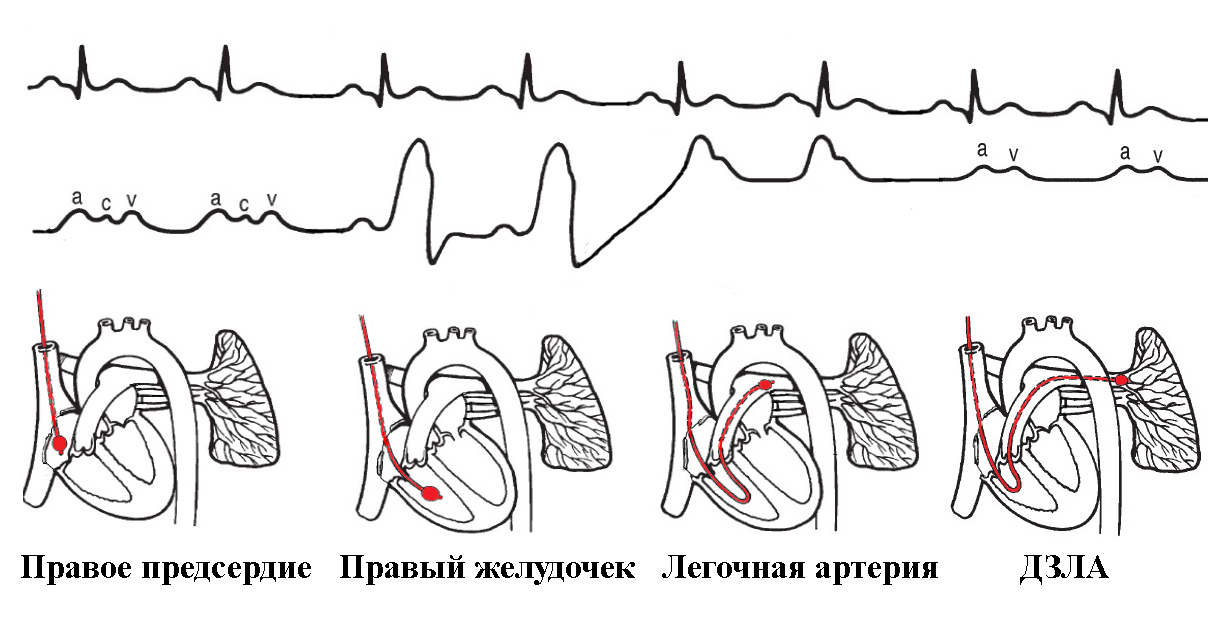 Swan-Ganz catheter